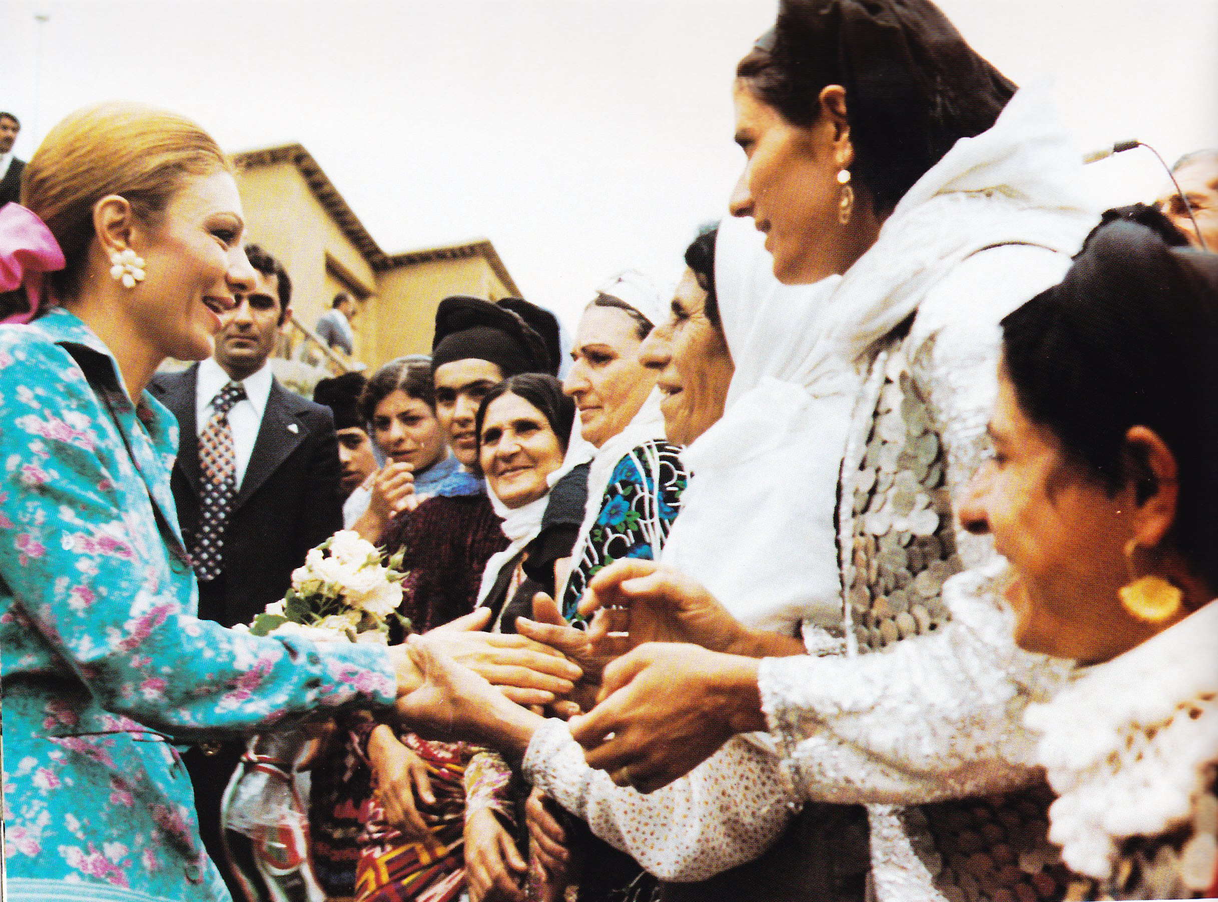 Shahbanu Farah Pahlavi visits Lahijan, Iran